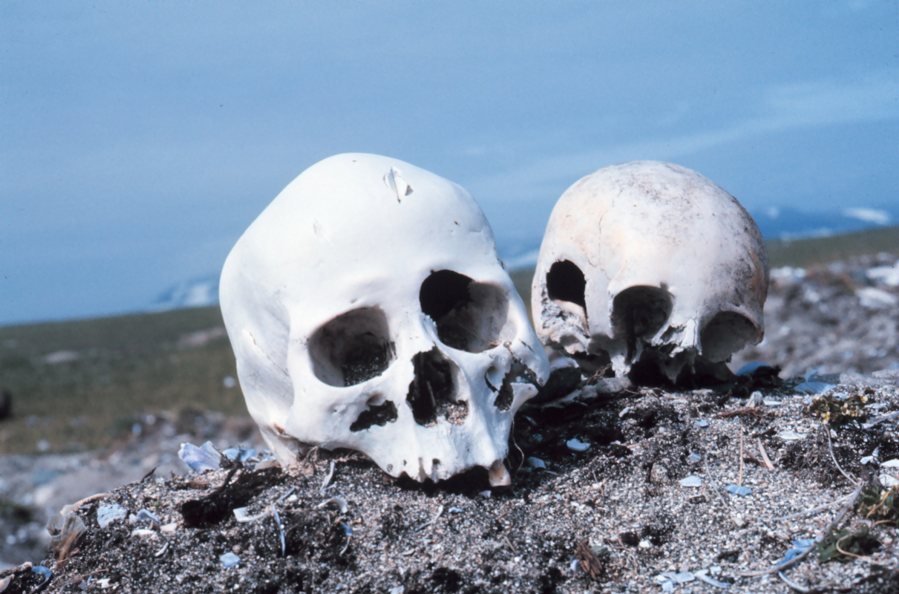 Skulls on a Beach: "Currents carry many dead things to Punuk Island making it the graveyard of the Bering Sea."